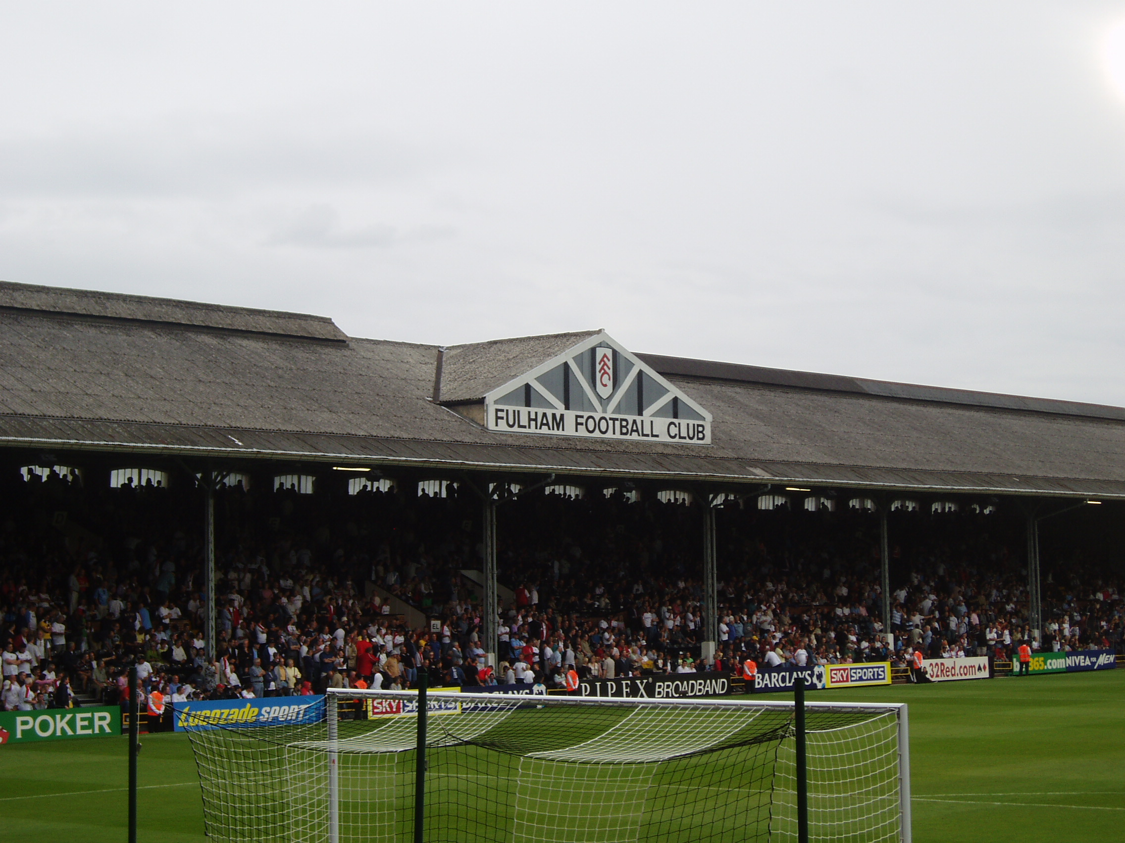 Samuel James, 2007Sammy222fulham 13:09, 27 July 2007 (UTC)